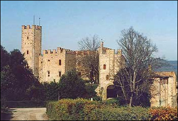 Exterior of Montalto Castle in Tuscany, Italy, with the entrance gate and tower.